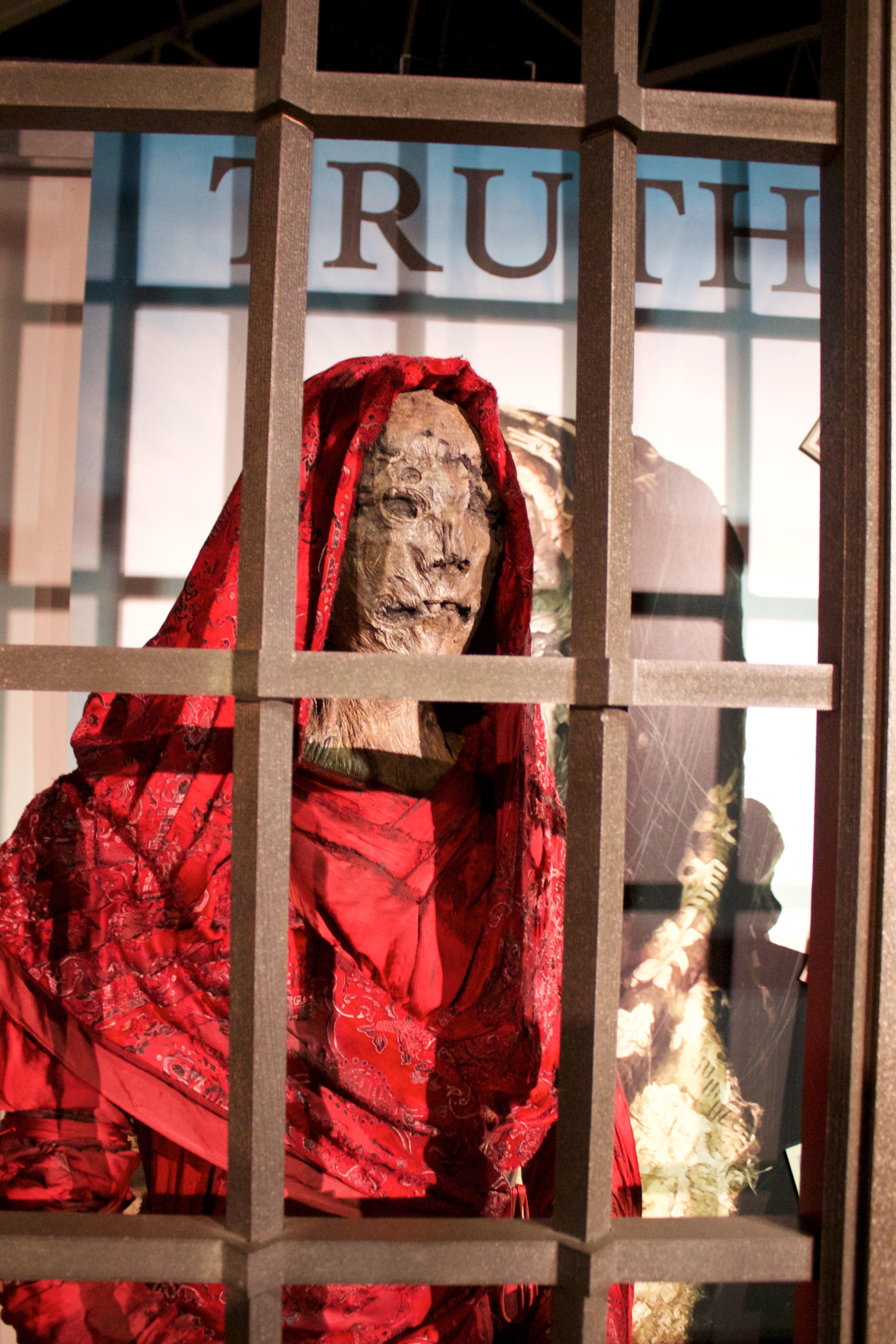 IMG_8635 Doctor Who Experience series 10